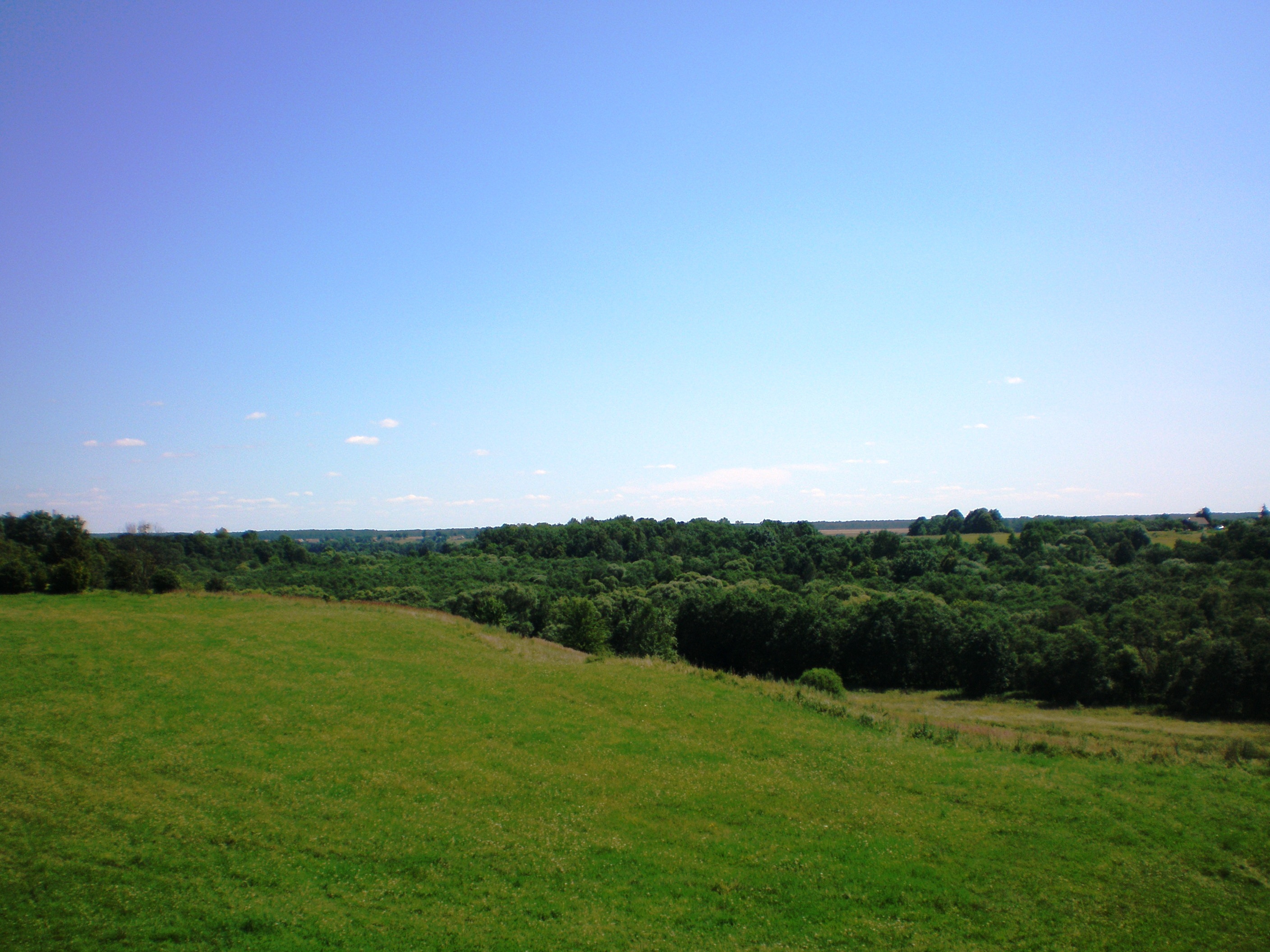 View from Bakainiai castlehill